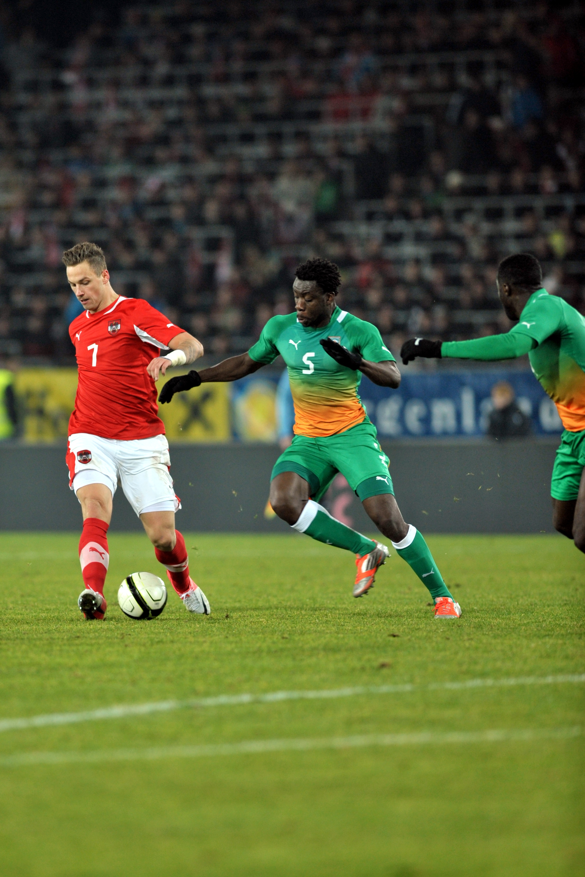 ÖFB freundschaftliches Länderspiel - Österreich vs Elfenbeinküste am 14. November 2012 The making of this work was supported by Wikimedia Austria. For other files made with the support of Wikimedia Austria, please see the category Supported by Wikimedia Österreich. Elfenbeinküste Nr. 5: Ismaël Traoré Österreich Nr. 7: Marko Arnautovic